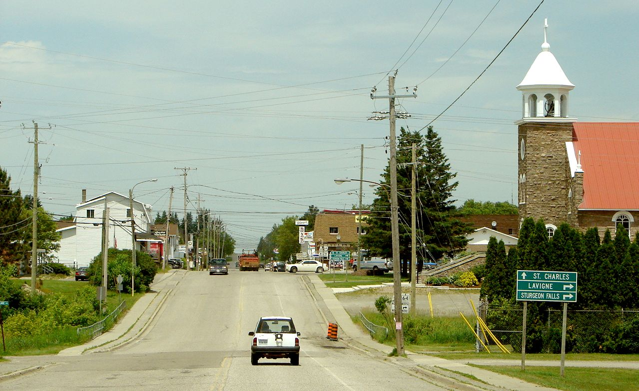 Noëlville, Ontario, Canada